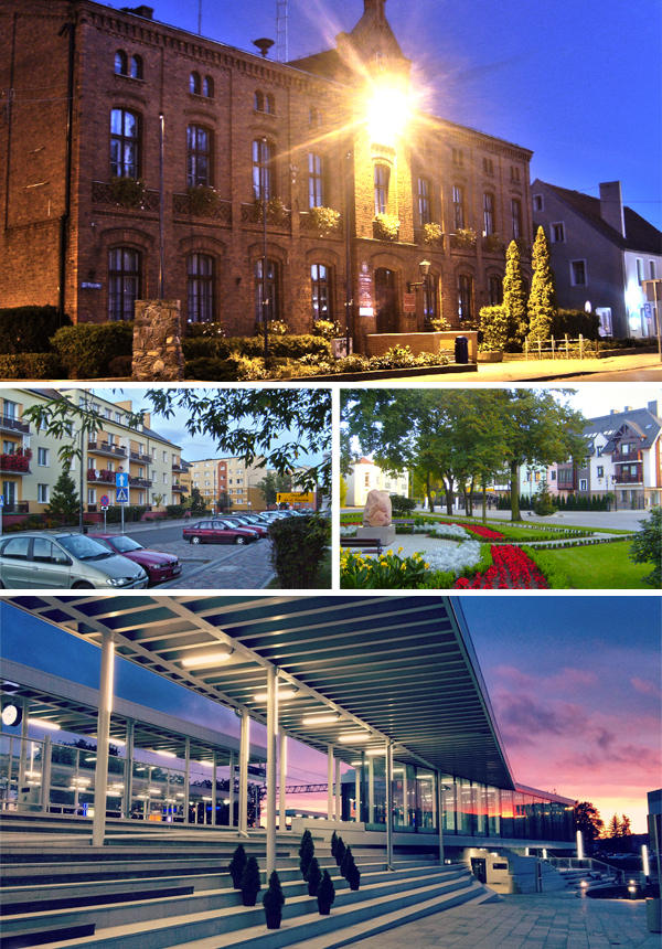 Od góry: Ratusz w Solcu Kujawskim, Osiedle Staromiejskie, Skwer Solidarności, Punkt przesiadkowy BiT City wraz z budynkiem dworca PKP